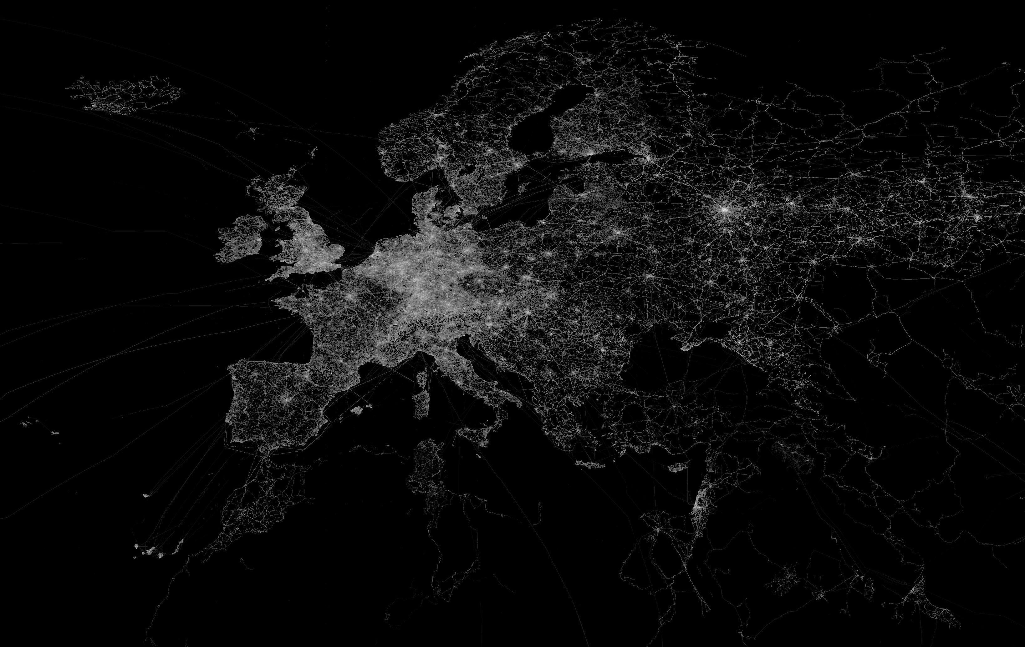 Cropped from a global plot of the logarithm of point density in the April, 2012 planet.gpx release (